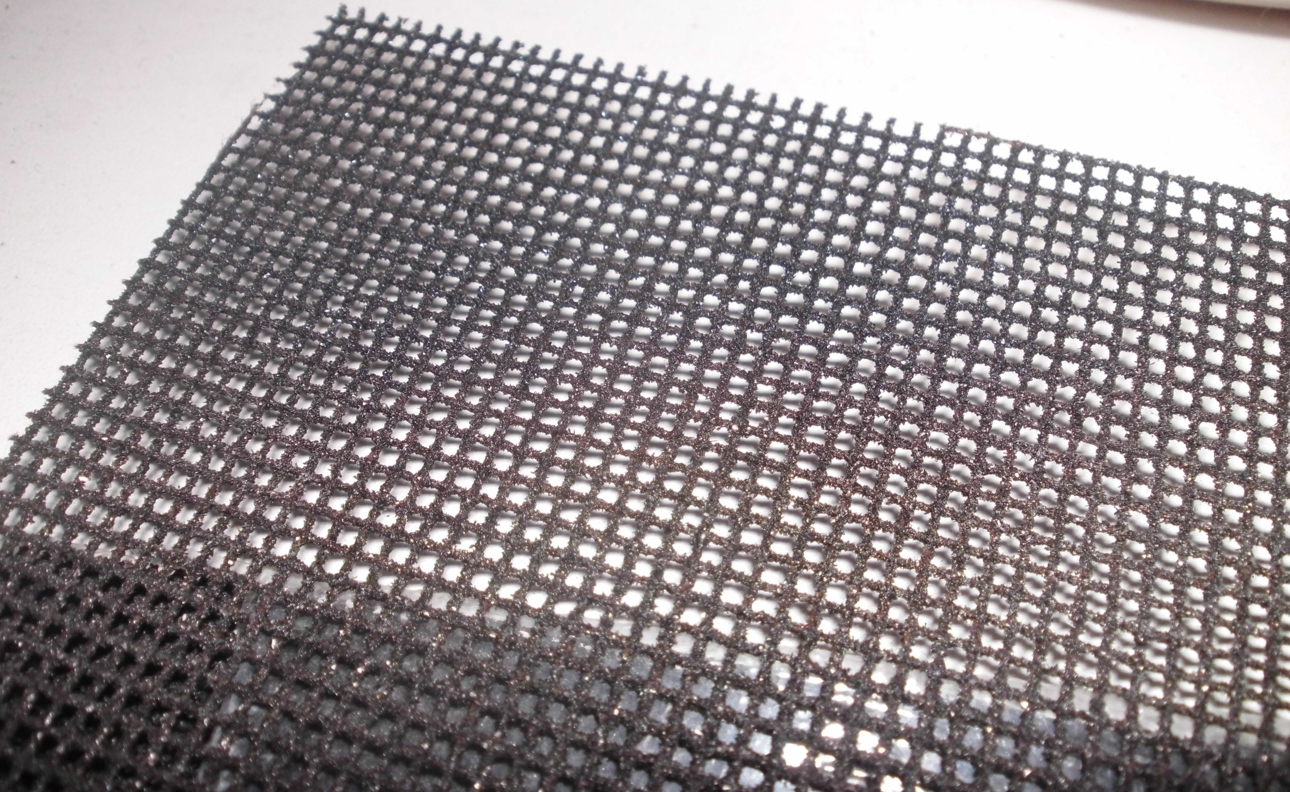 Abrasive mesh